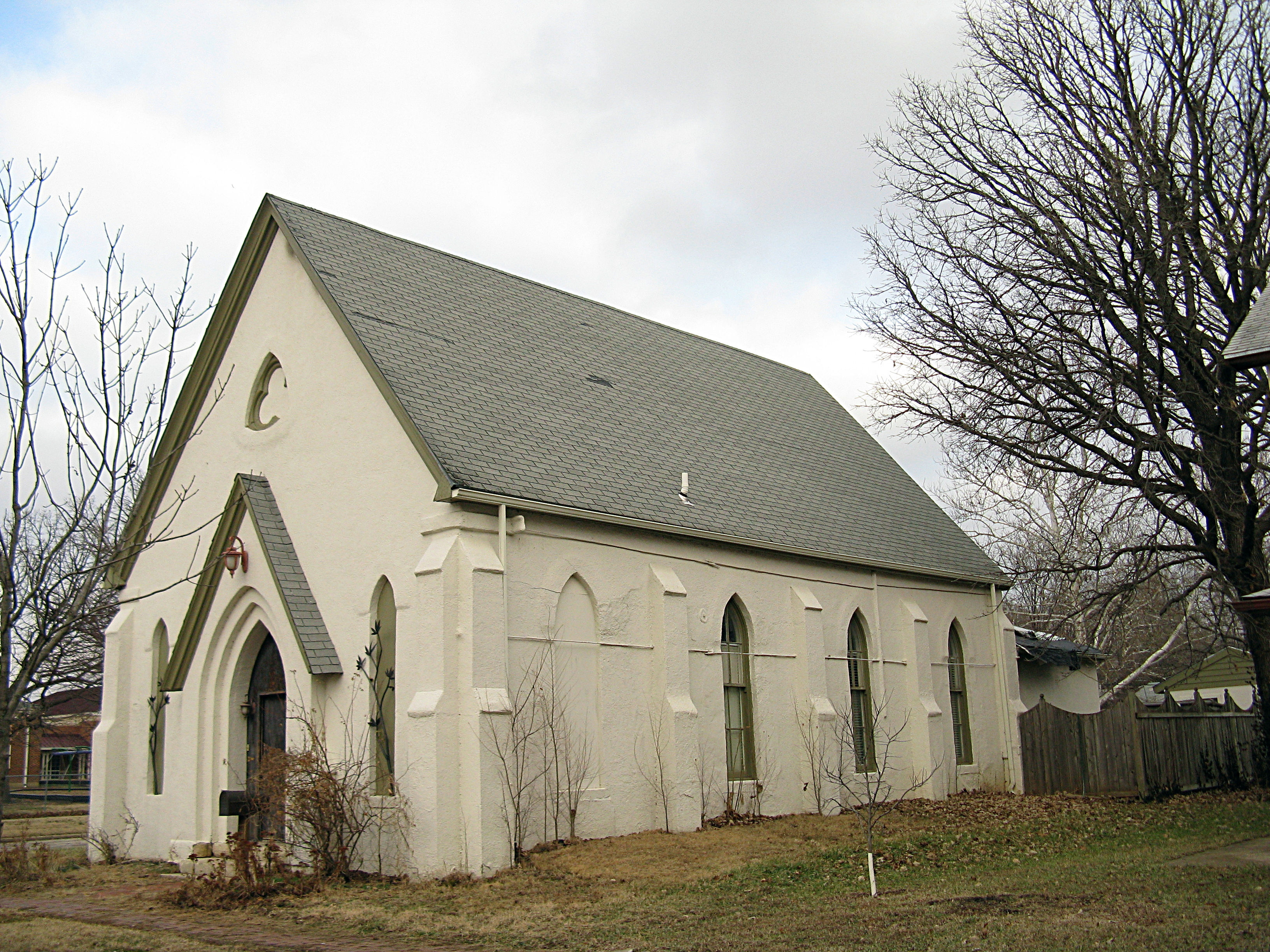 Lawrence, Kansas historic walking tour